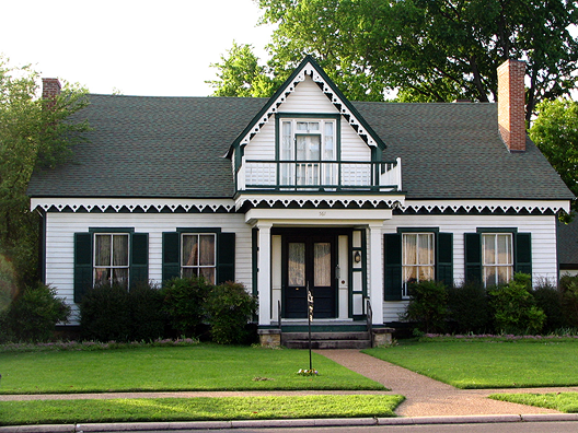 taken by E. Tebbetts